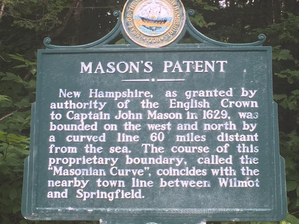 The New Hampshire historical marker for Mason's Patent and named after John Mason.